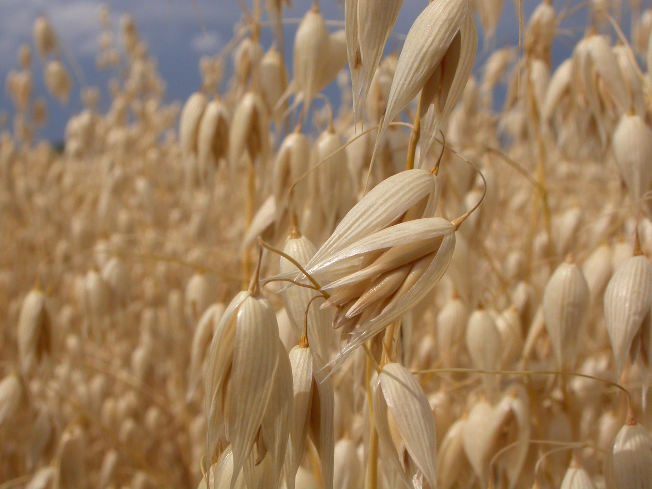 The large glumes enveloping 2-4 glabrous and mostly awnless florets characterizes the spikelet of cultivated oats.